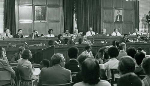 United States House Select Committee on Assassinations Representatives Yvonne Brathwaite Burke of California, Harold Ford, Sr., of Tennessee, Walter Fauntroy of the District of Columbia, and Louis Stokes of Ohio were members of the House Select Committee on Assassinations. The committee, chaired by Stokes, investigated the assassinations of Dr. Martin Luther King, Jr., and President John F. Kennedy. In this image of a committee hearing, Burke (upper left), Fauntroy (second from upper left), and Stokes (fifth from upper left) listen to witness testimony.